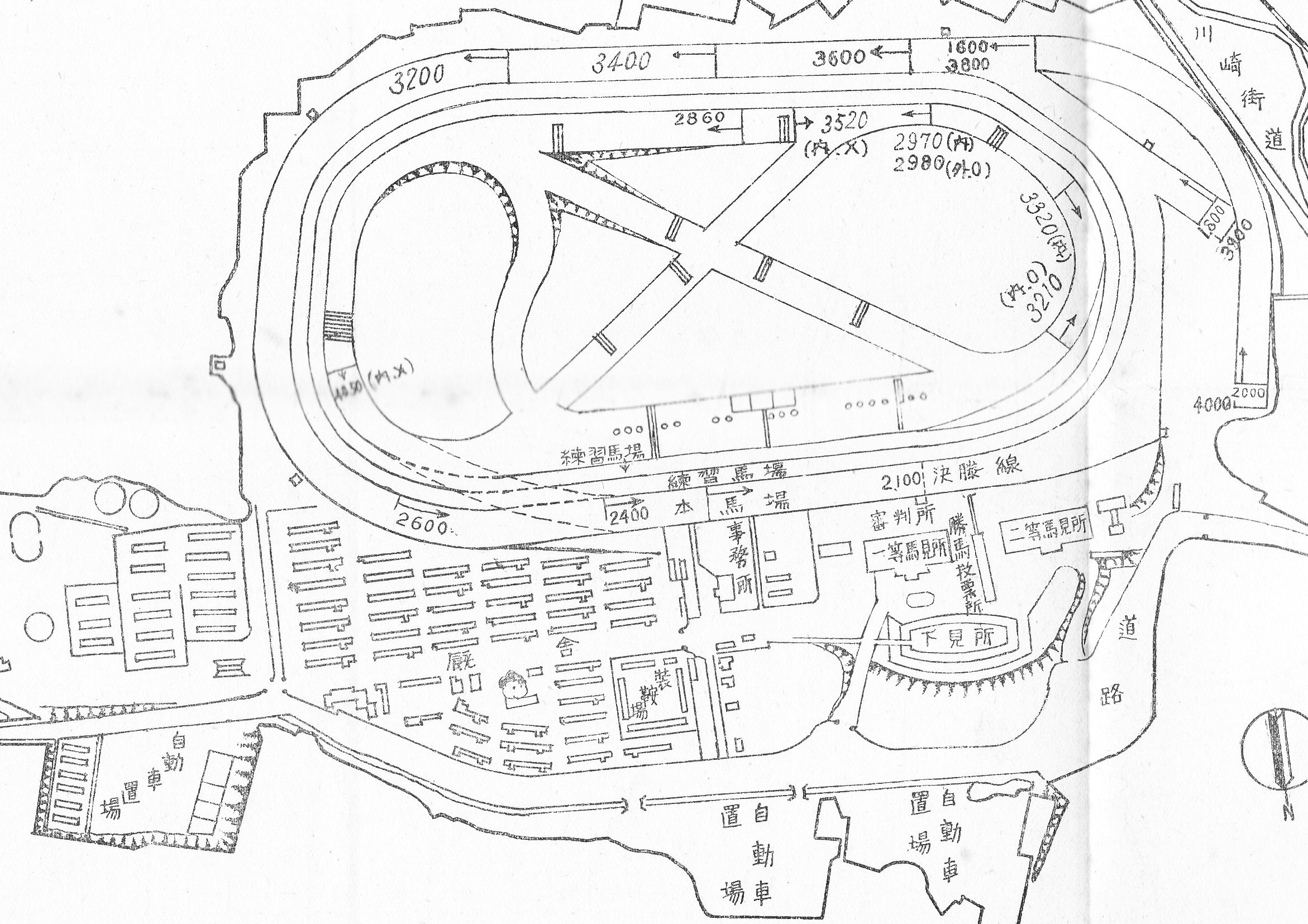 Tokyo Racecourse(1940)